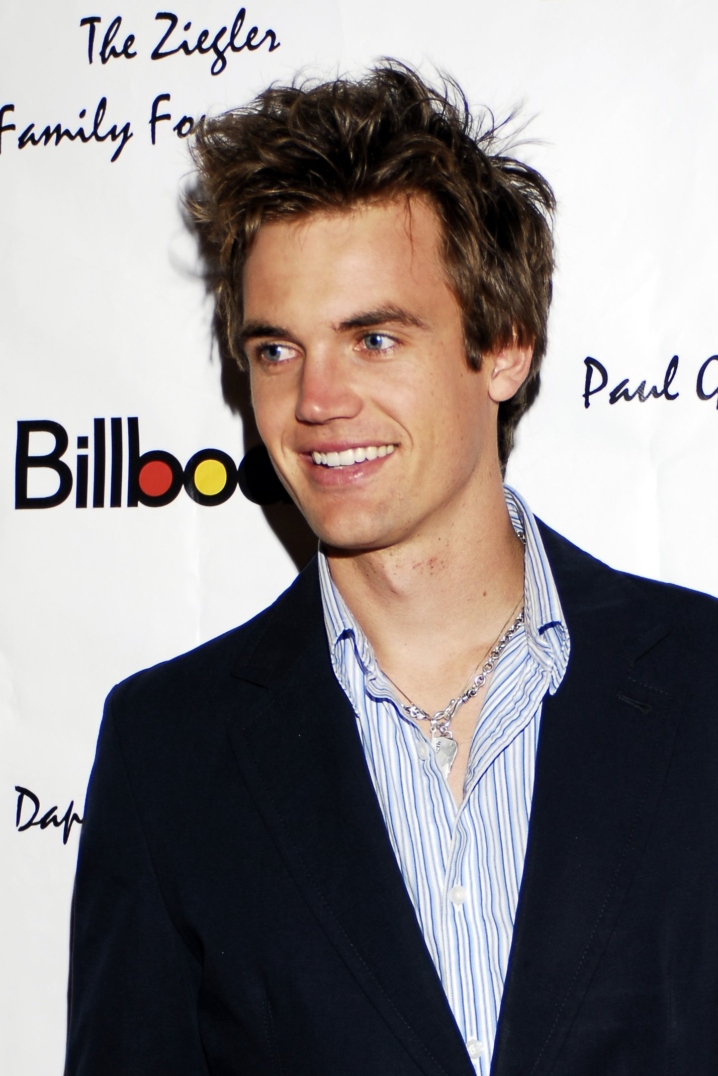 Tyler Hilton at the 79th Annual Academy Awards Children Uniting Nations/Billboard afterparty.